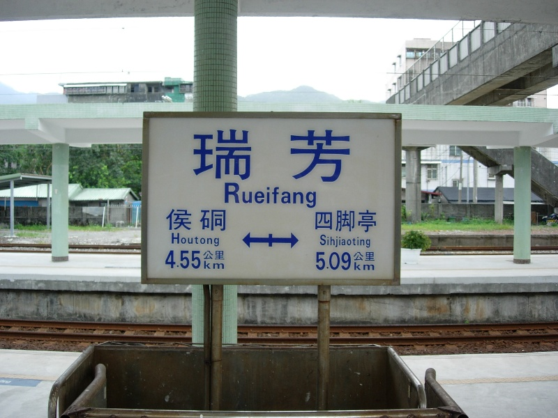 The train station sign at the platform area of of TRA Rueifang Station.中文（台灣）: 臺灣鐵路管理局瑞芳車站月臺區相鄰車站里程告示牌。